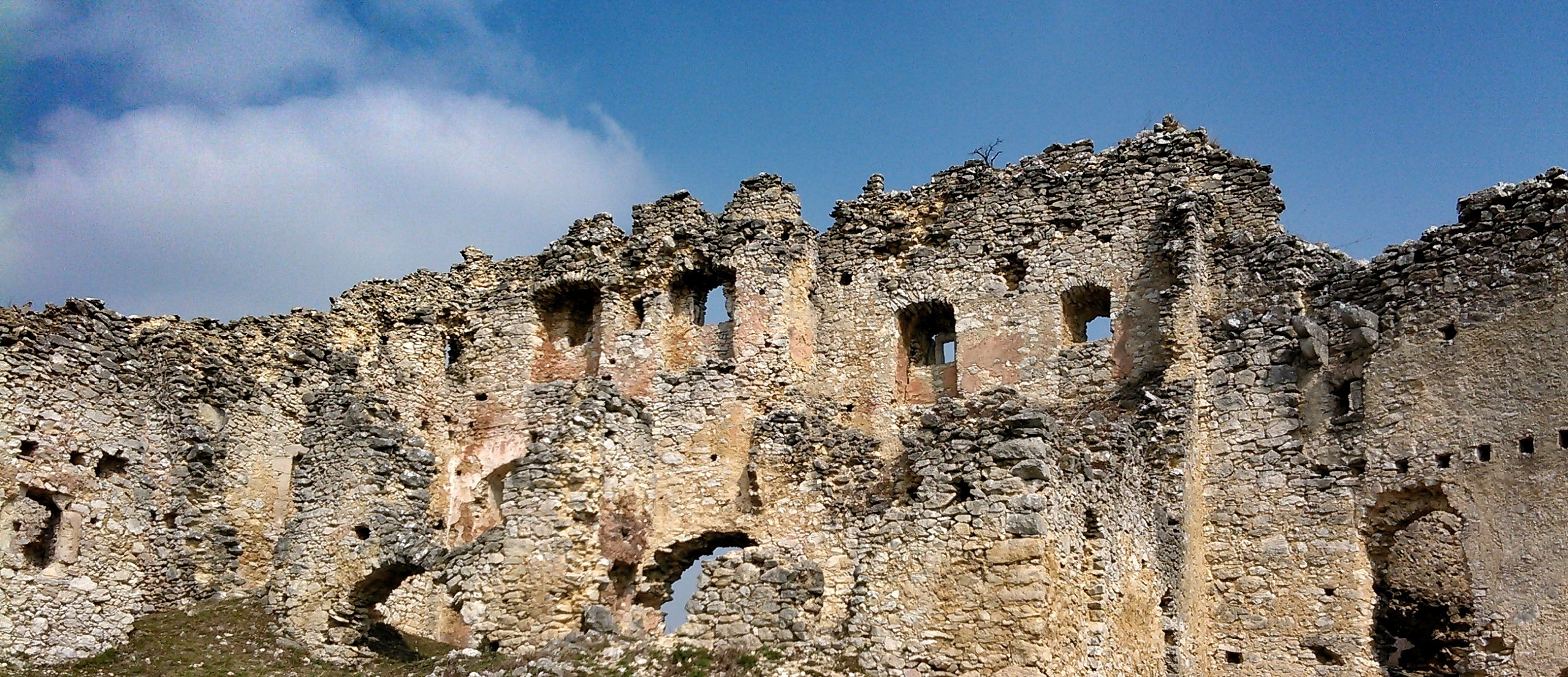 The inside of Fort Milengrad in Croatia.